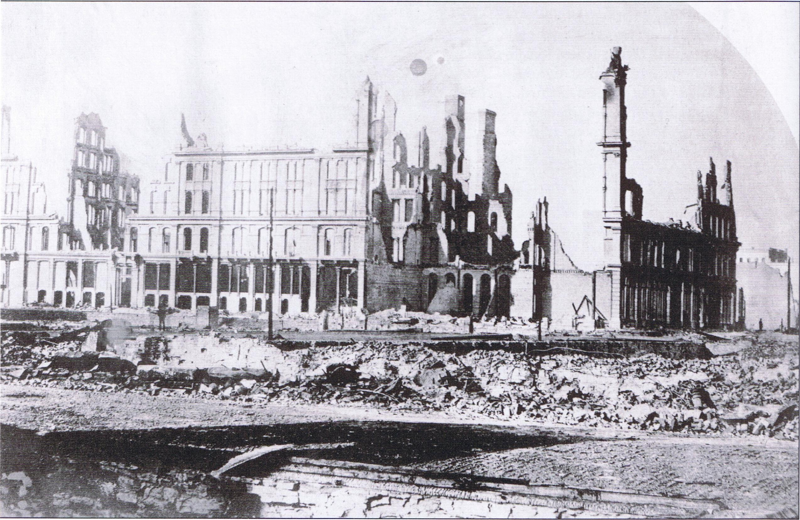 Grand Pacific Hotel after the Great Chicago Fire